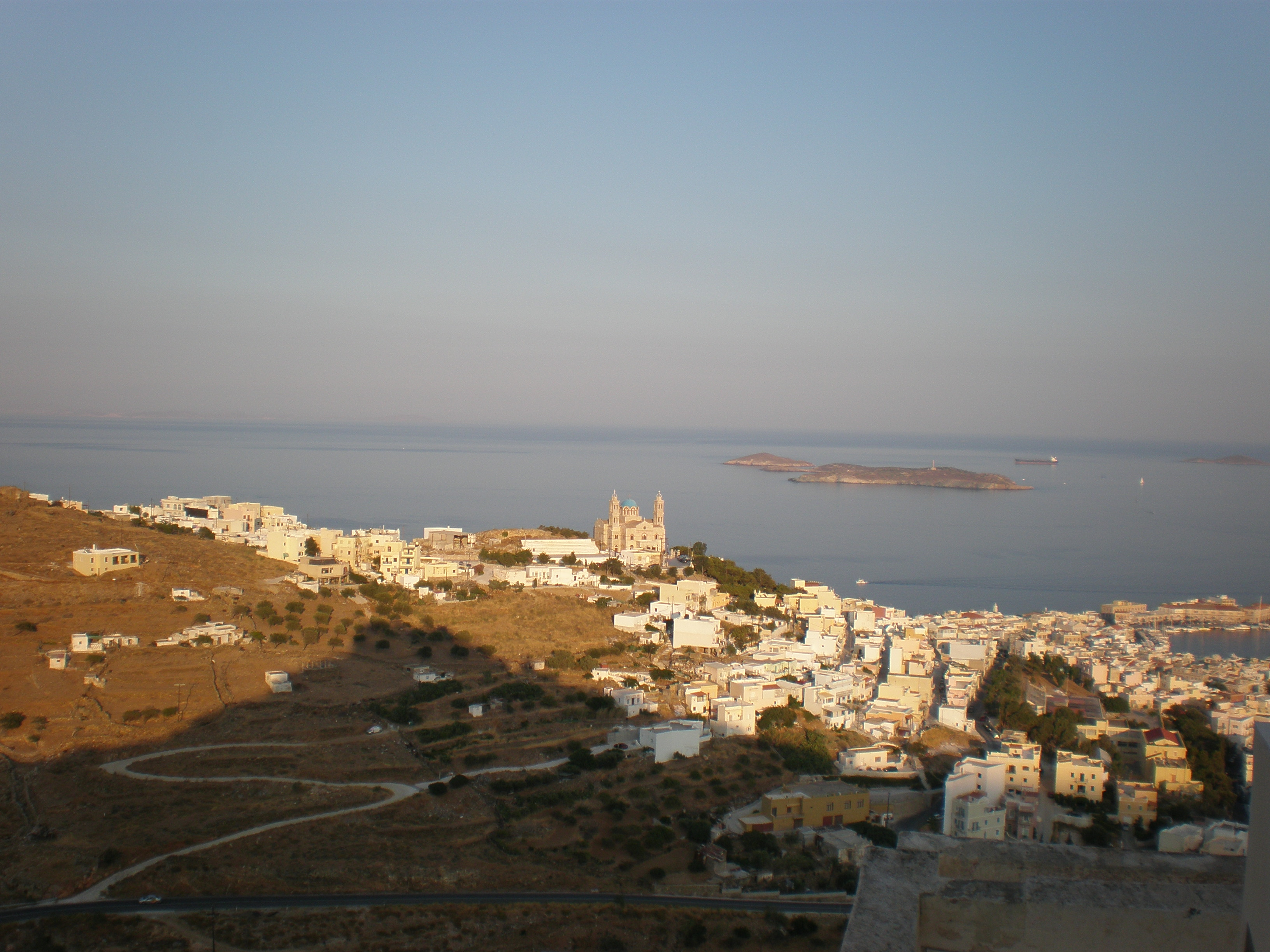 View from Ano Syra, Syros, Cyclades